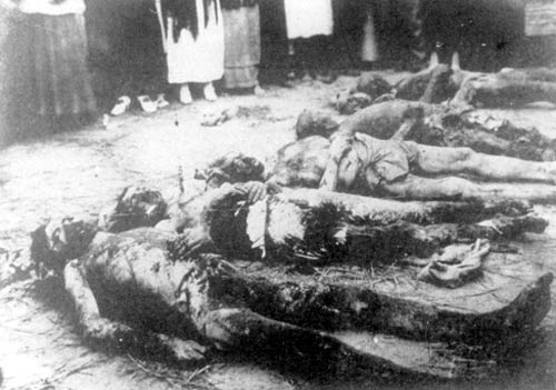 The bodies of hostages found in Kherson Cheka in the basement of Tulpanov`s house.